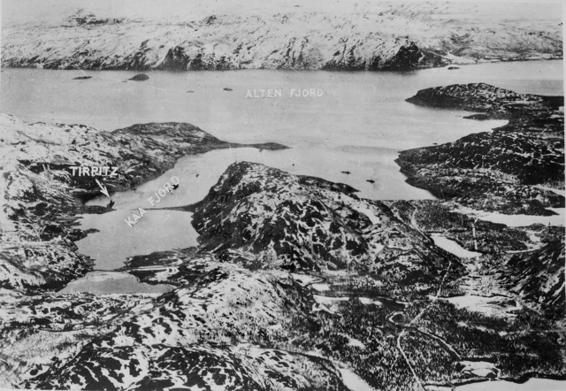 The Tirpitz (arrow) at her usual berth in Kaafjord in May 1943